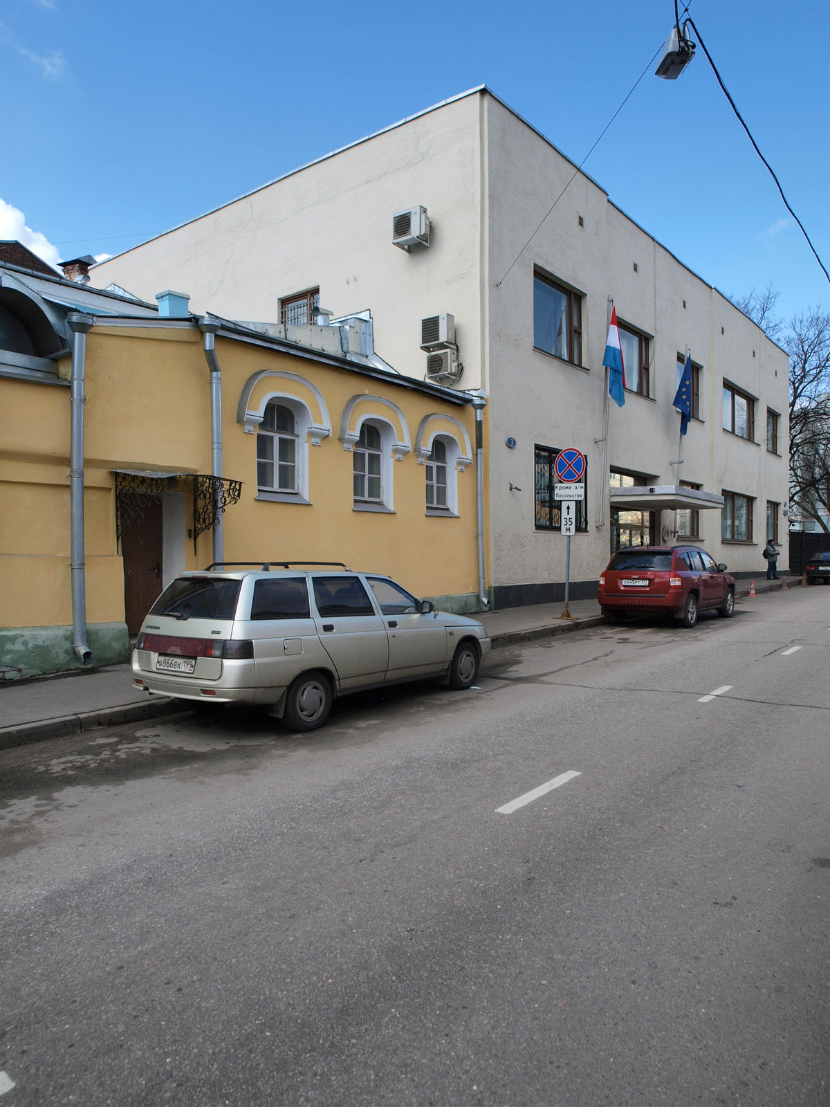 Embassy of Luxembourg in Moscow (3, Khrushevsky lane)